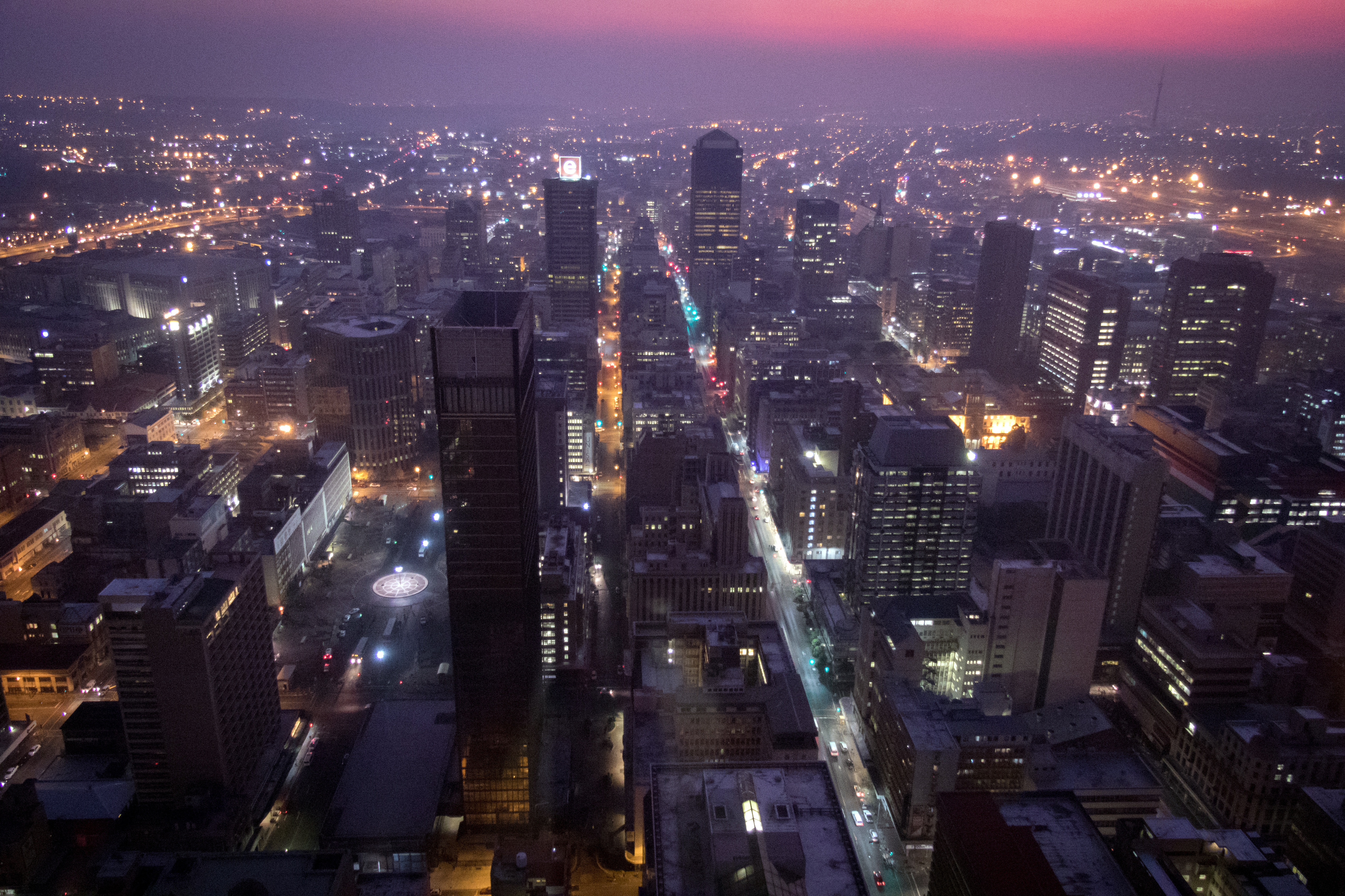 View from the Carlton Centre - Johannesburg's inner city went into decline when the ‘Money’ relocated to Sandton and the destitute moved in. Certain parts are still ‘no-go’ areas, such as Hillbrow, but Bramfontein and the city centre are clawing their way back to respectability. Seen from the panorama deck of Johannesburg’s tallest building the city does remind me of the dystopia portrayed in the movie Blade Runner (1982).